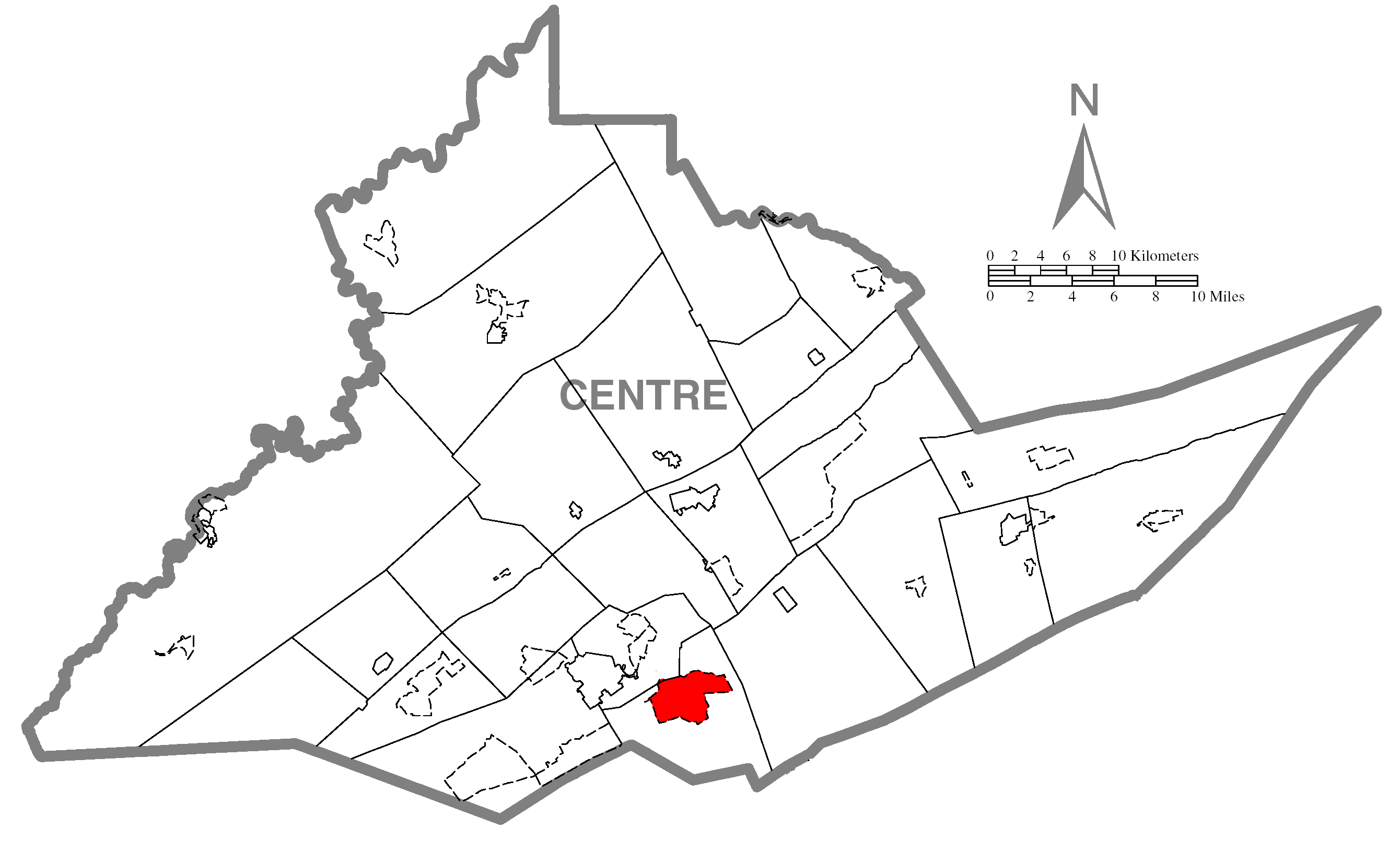 A map of Centre County showing Boalsburg, Pennsylvania (alternate) highlighted on the map.